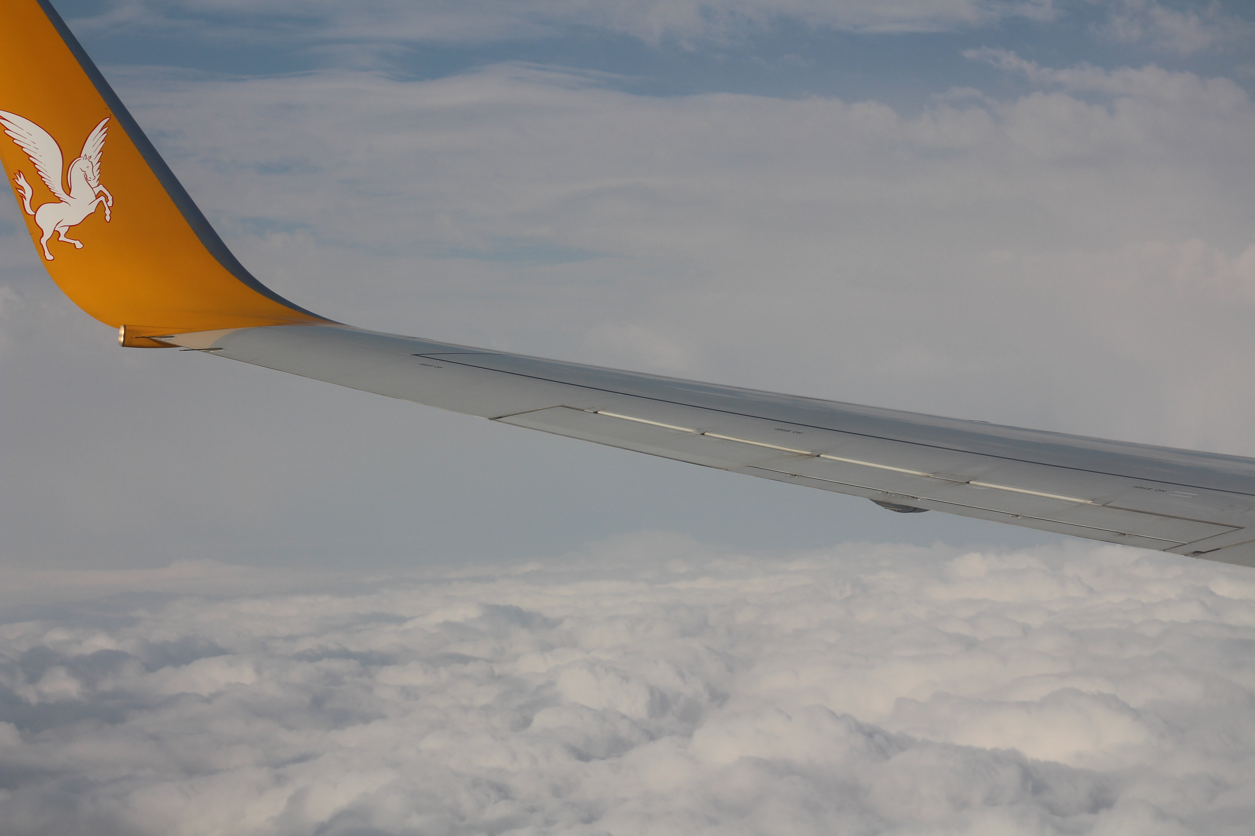 Flight of Istanbul - Ankara.